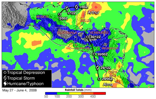 Rainfall from Tropical Storms Alma and Arthur, as measured by the Tropical Rainfall Measuring Mission